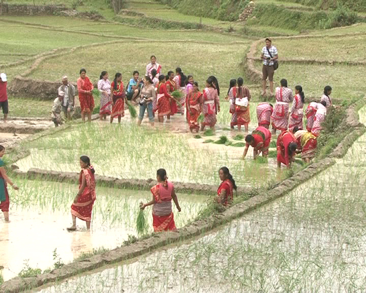 Farming